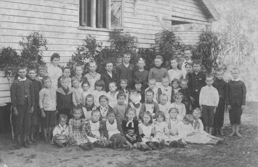 Alberton State School and students ca. 1892. School photograph of the schoolchildren with their teachers next to the Alberton School.